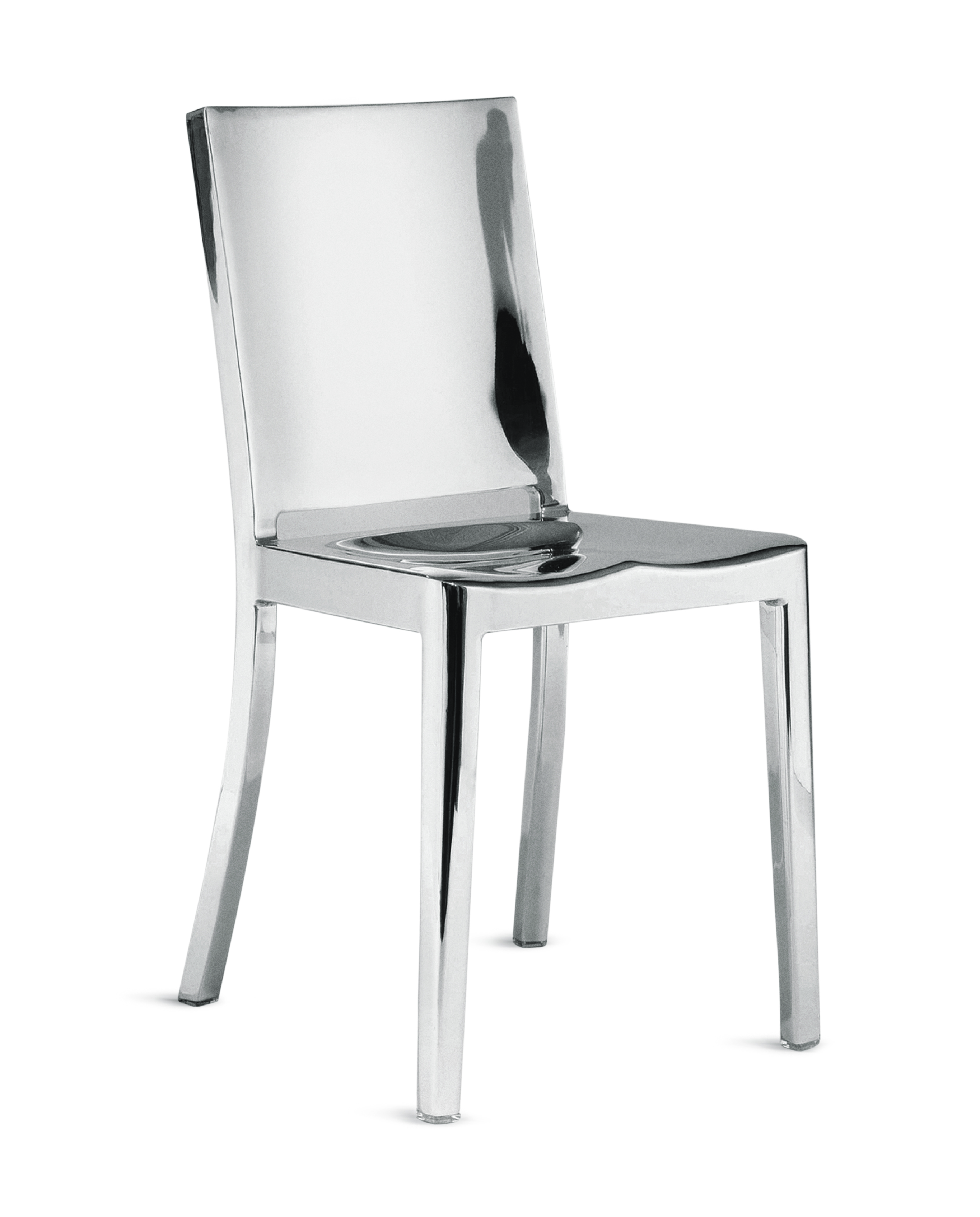 The Hudson polished aluminum designer re-make of the 1006 Navy chair